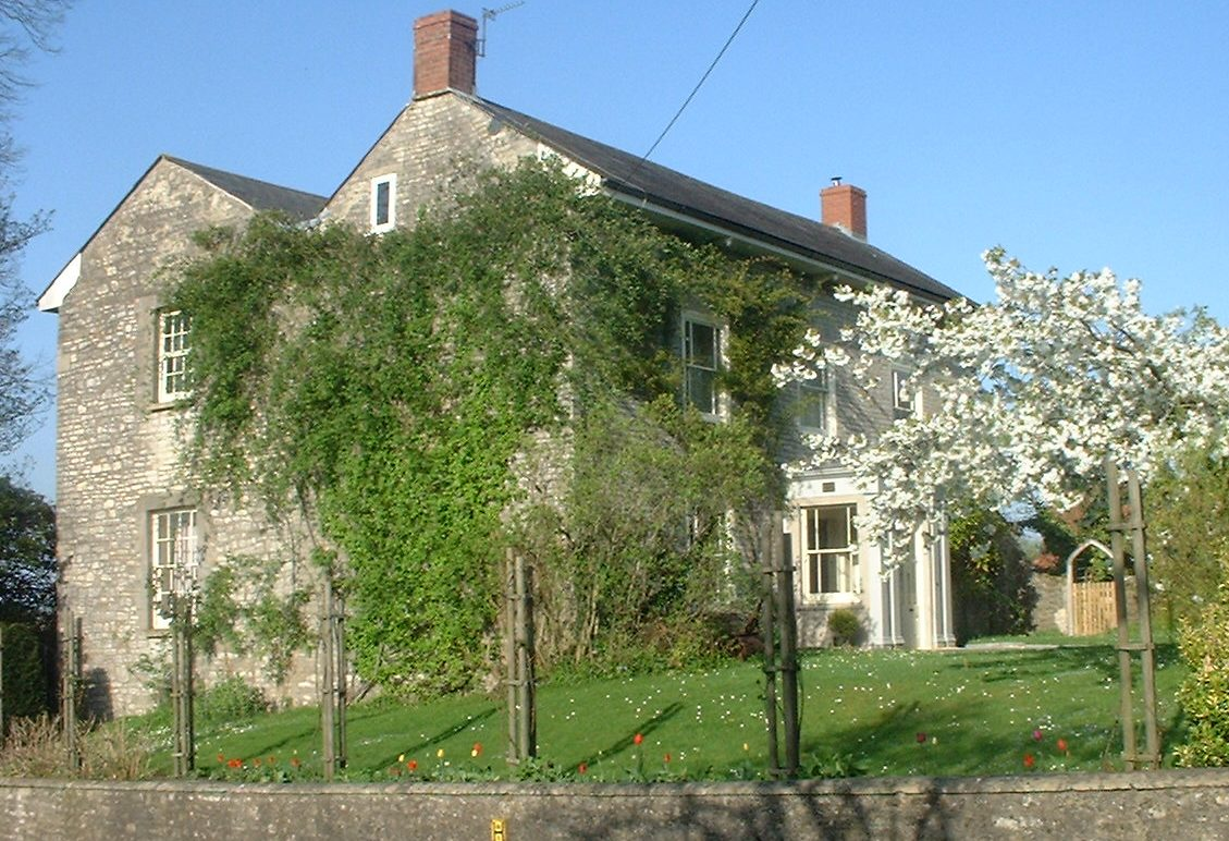 Fairseat Farmhouse in Chew Stoke. Taken by Rod Ward 26th April 2006